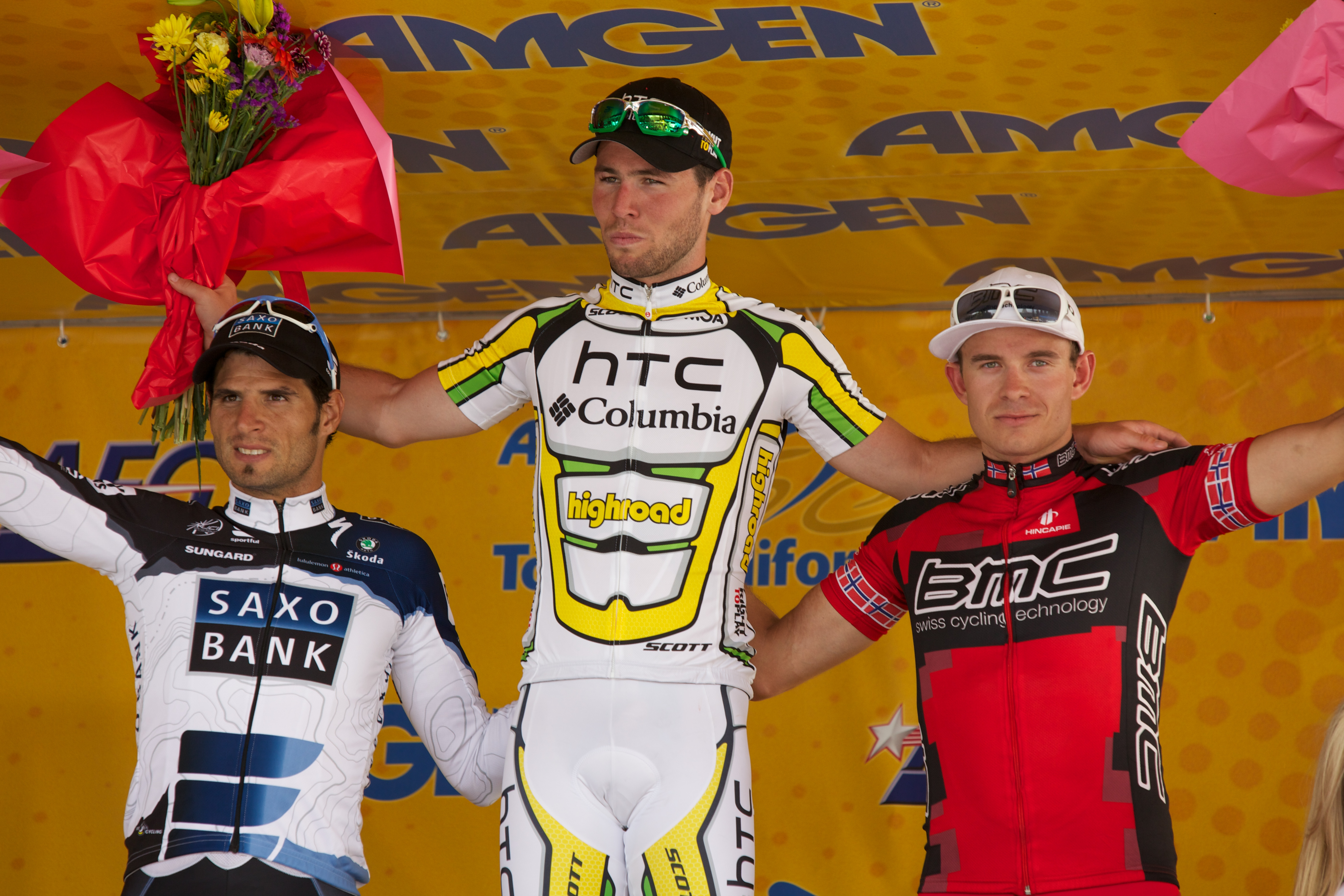 Tour of California Stage 1 winner, Mark Cavendish by Bryan Green Photography. Also pictured are Juan José Haedo at left and Alexander Kristoff at right.